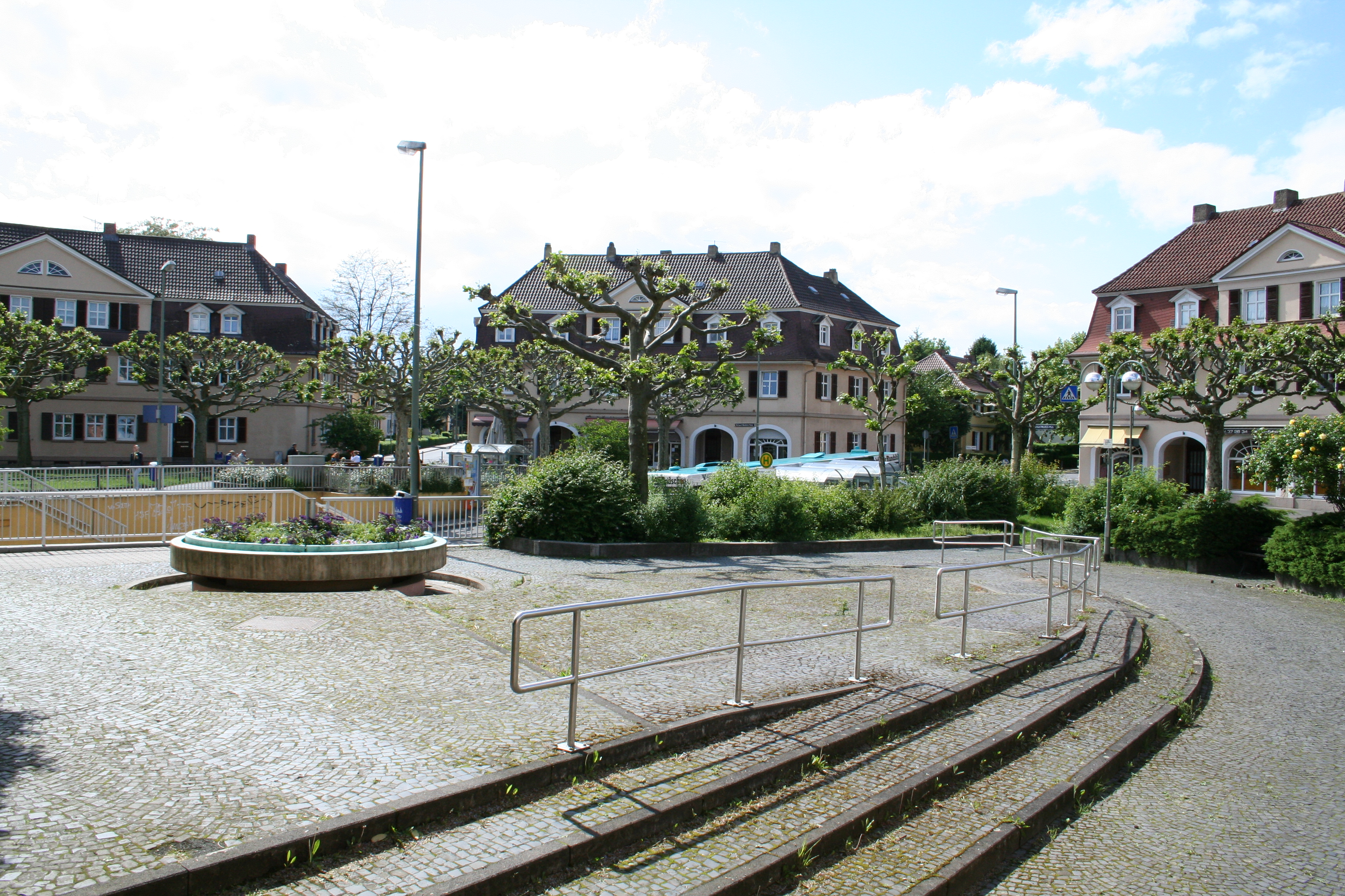 Richard-Weidlich-Platz